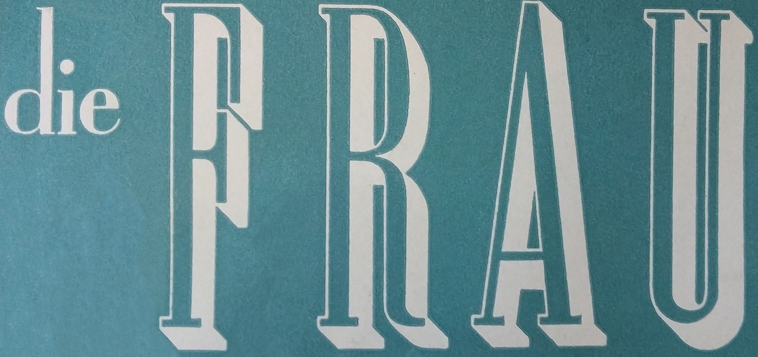 Logo of the Swiss women's magazine die Frau